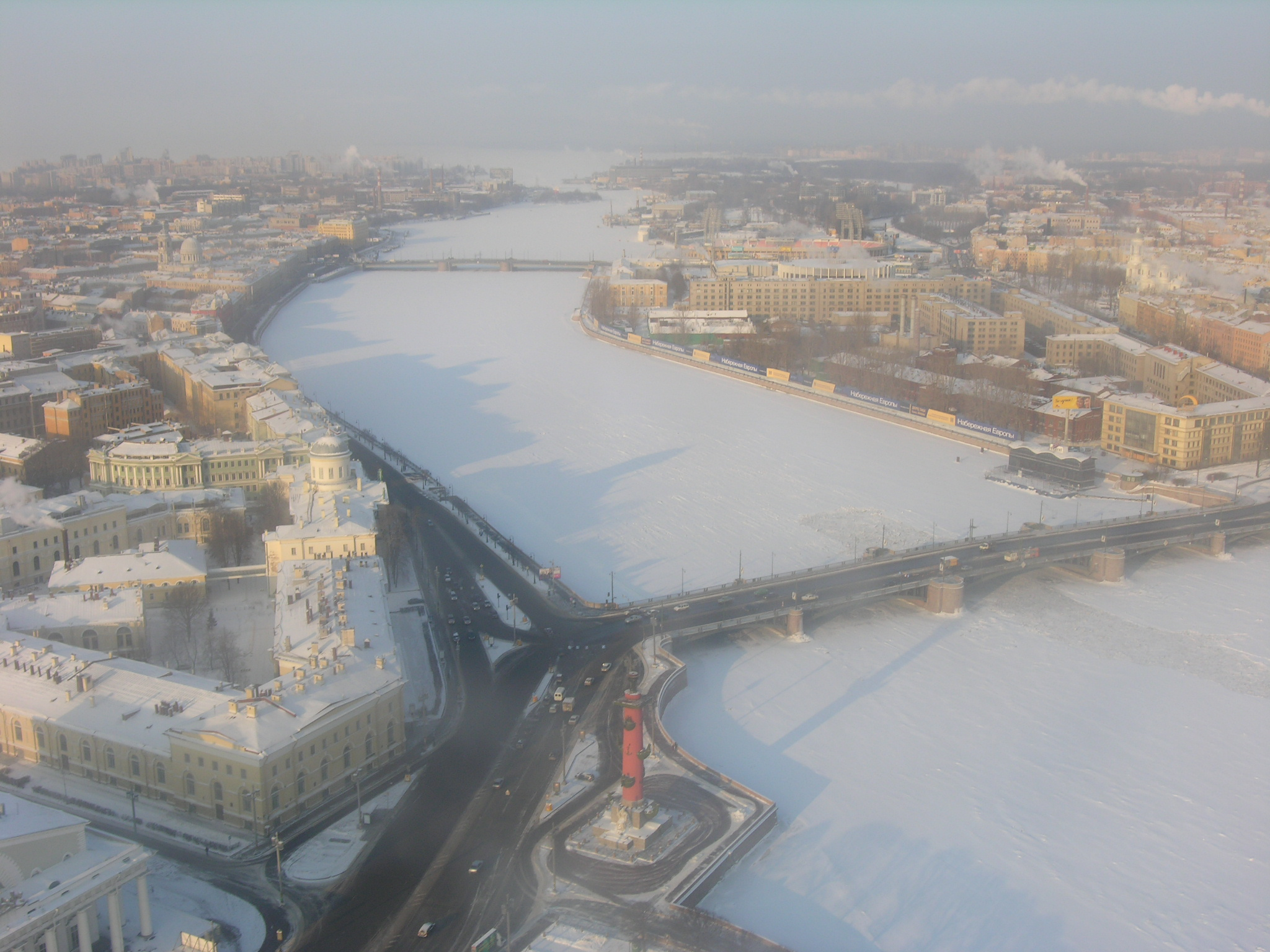 Historic Centre of Saint Petersburg and Related Groups of Monuments (Russian Federation)